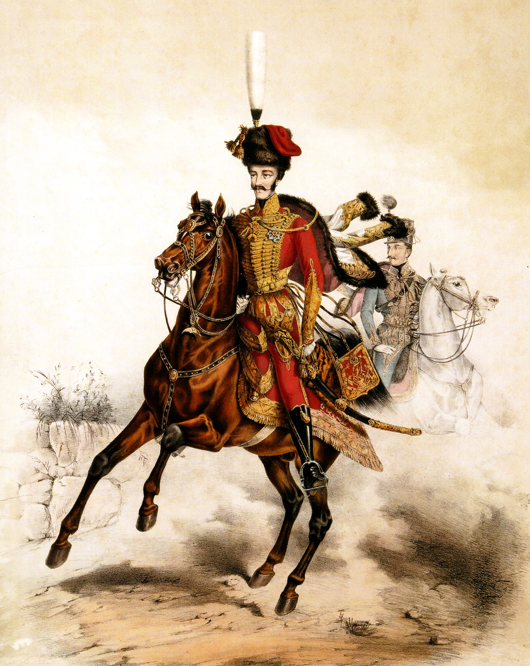 Archduke Stephen, Palatine of Hungary, in the parade hussar uniform (color lithography by Franz Xaver Zalder from the collections of the Budapest Historical Museum)